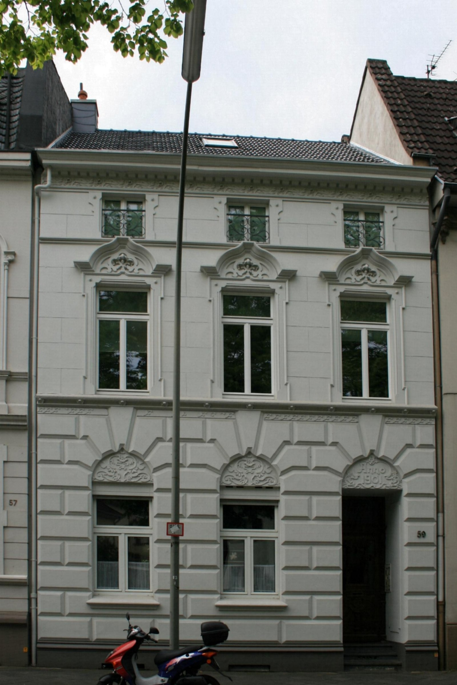 Cultural heritage monument No. B 147 in Mönchengladbach